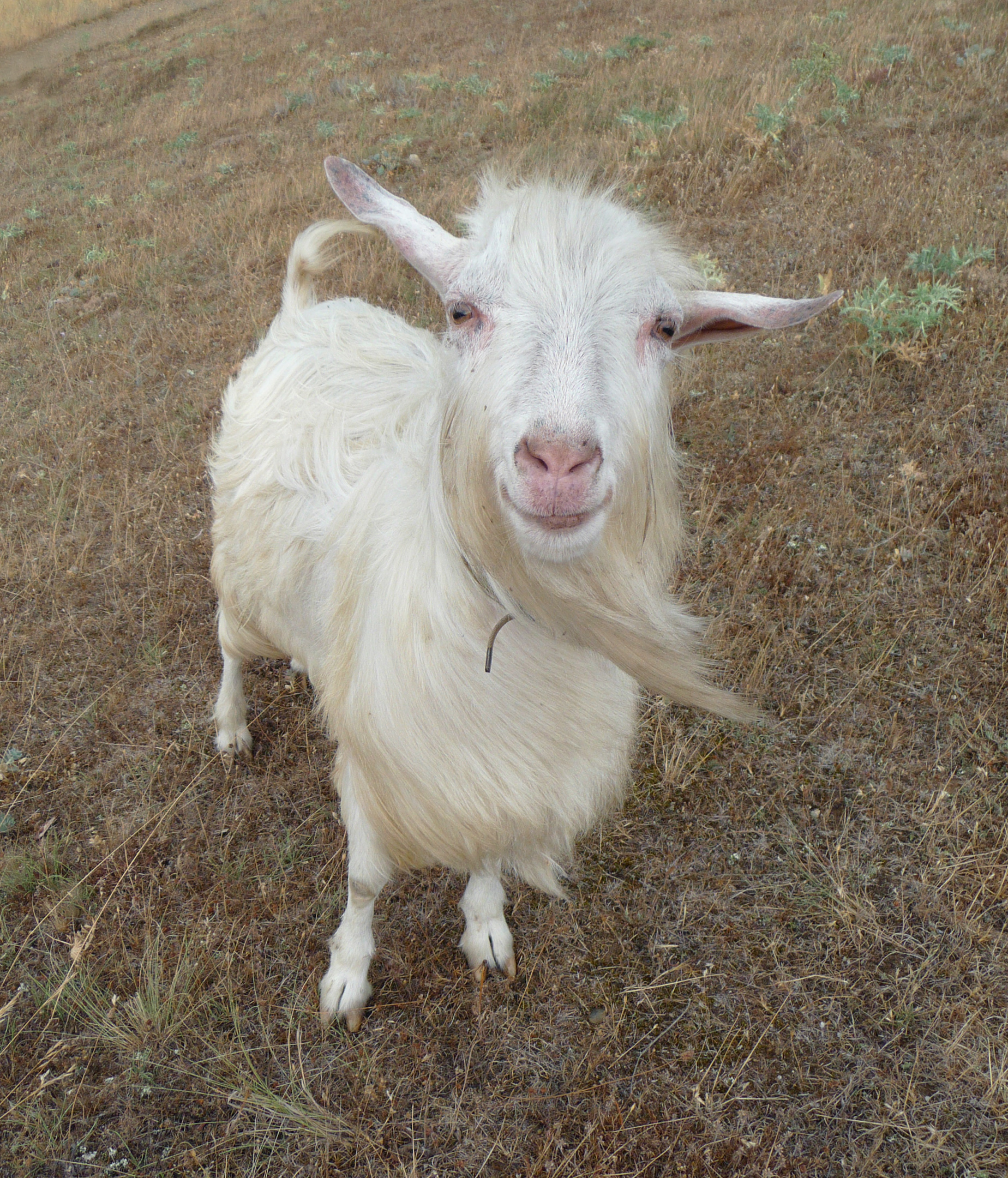 Domestic goat smile. Crimea, mountains near Balaklava.